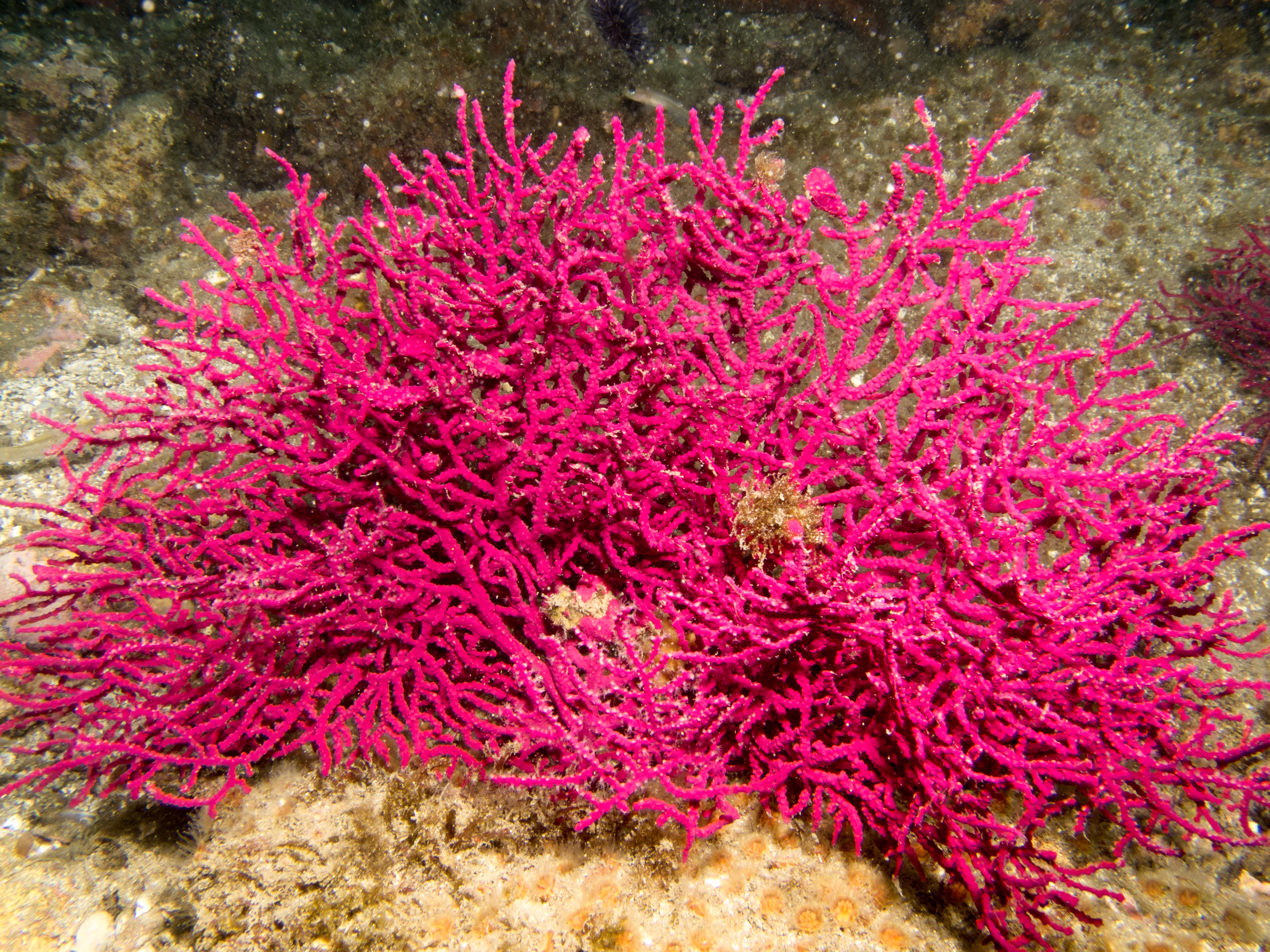 Purple Gorgonian, Eugorgia rubens. Northern California Rainbow Diver's Channel Island Trip, 2013 - Santa Cruz & San Miguel Islands